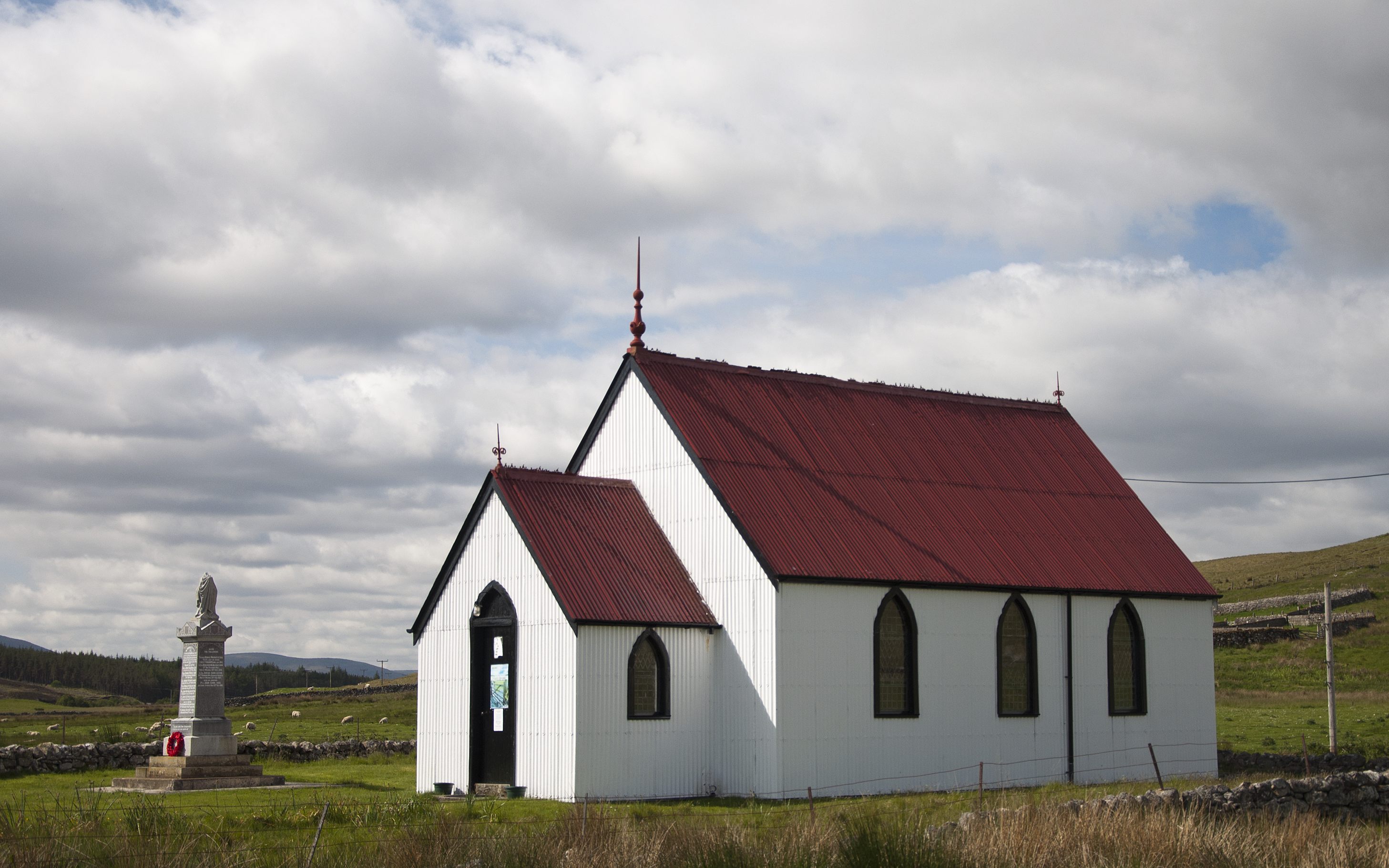 19th century church of Syre, Strathnaver, Scotland